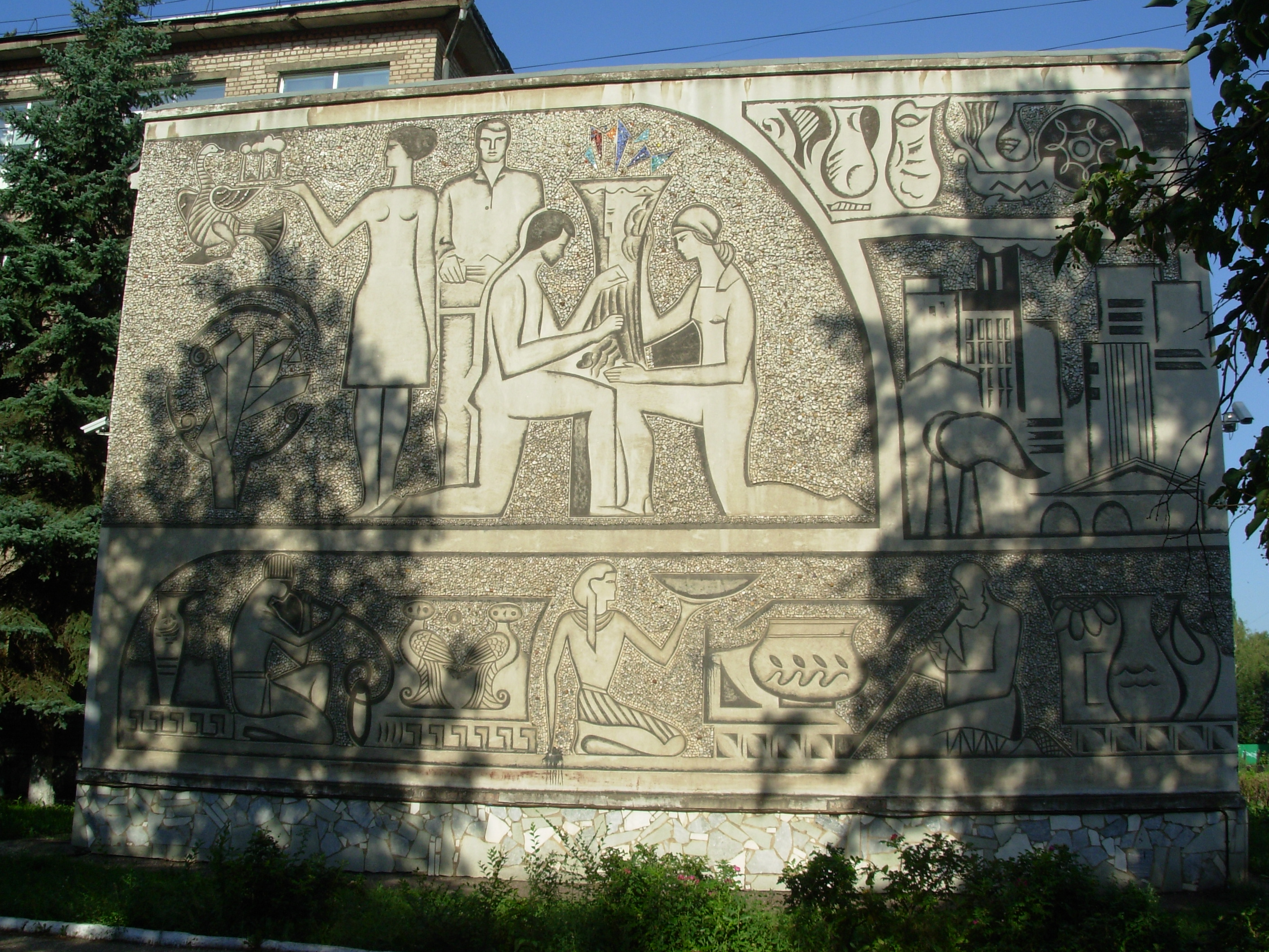 mozaika